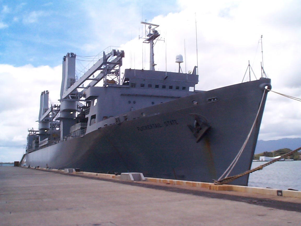 The U.S. Military Sealift Commanc auxiliary crane ship SS Flickertail State (T-ACS-5) at Pearl Harbor, Hawaii.